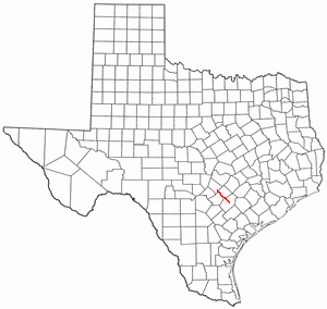 Adapted from Wikipedia's TX county maps